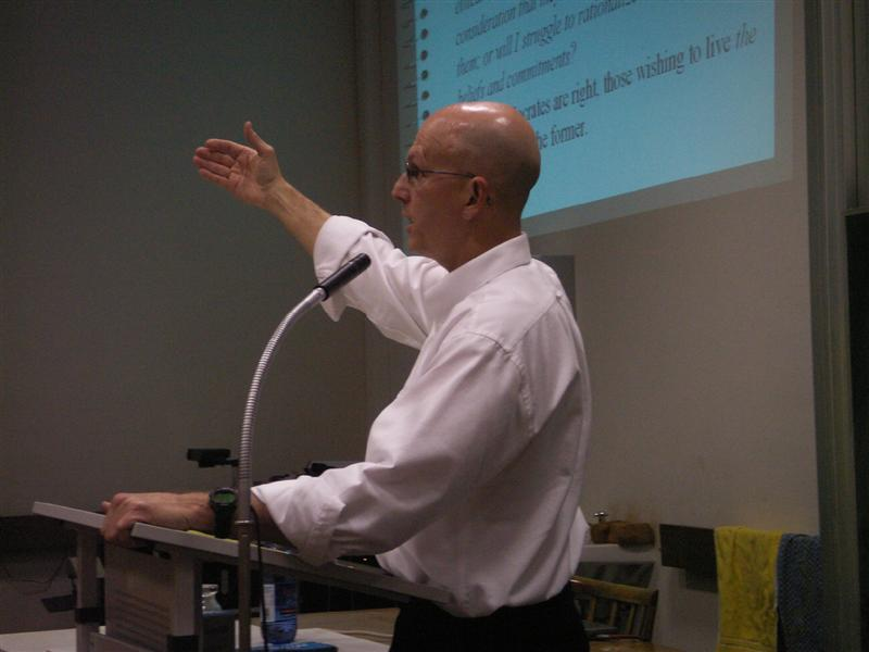 Do Animals Have Rights, and Does It Matter if They Don'€™t?Prof. Dr. Mylan Engel Jr.